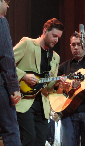 Kevin Hearn plays the mandolin at Massey hall with fellow Barenaked Ladies, Steven Page (left) and Ed Robertson (right).